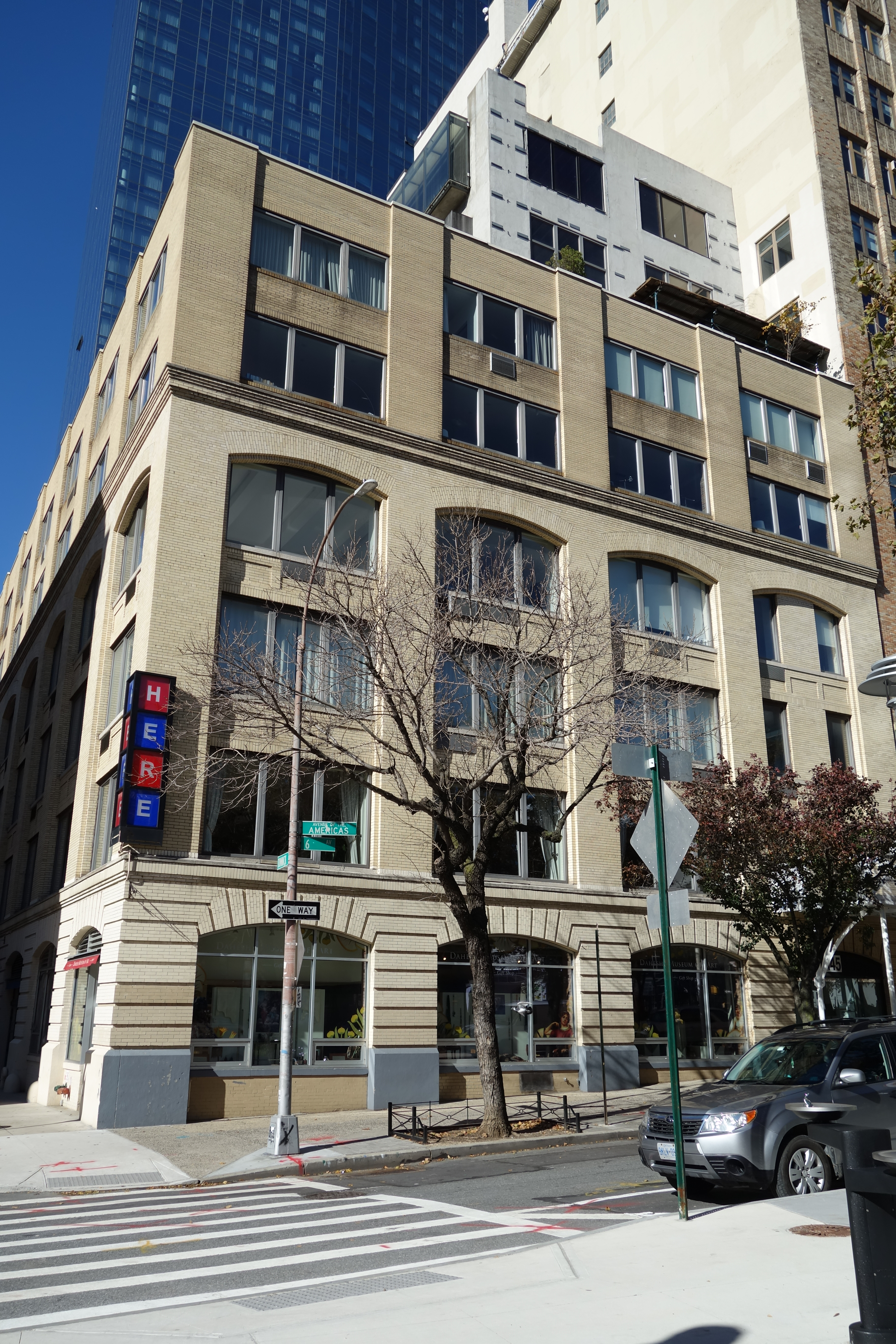 Looking west from Spring Street Park at the HERE Arts Center (145 6th Avenue), at 6th Avenue and Dominick Street in SoHo / Hudson Square, Manhattan.